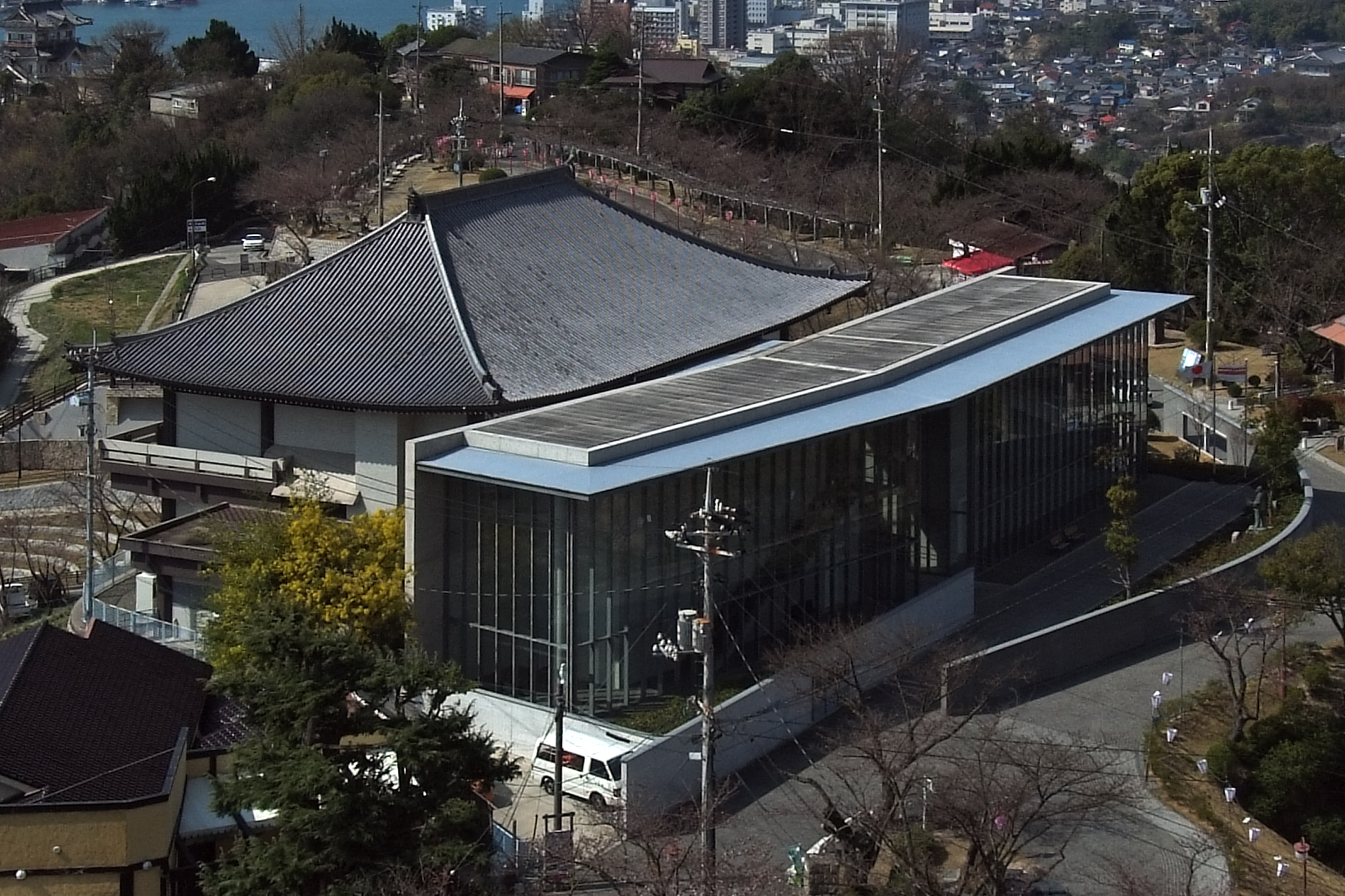 Onomichi City Museum of Art, at Onomichi Hiroshima Japan.